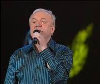 Mustafa Chaushev